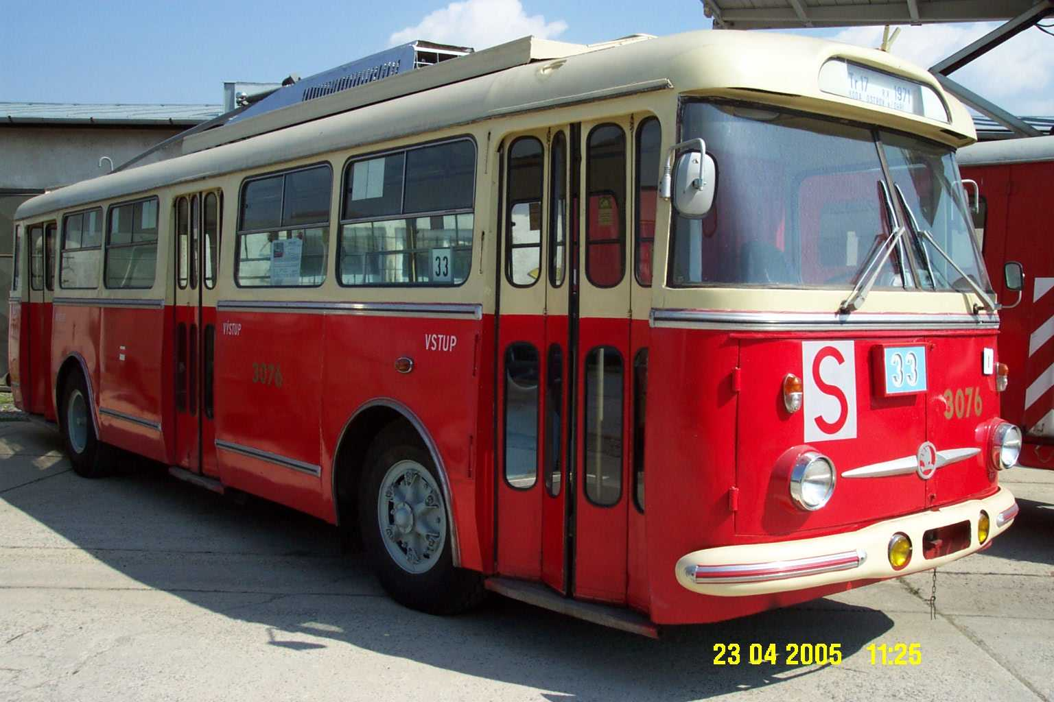 Škoda 9Tr trolleybus in Brno-Řečkovice in late April 2005